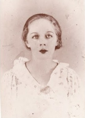 Portrait of French writer Nathalie Henneberg (1917-1977).